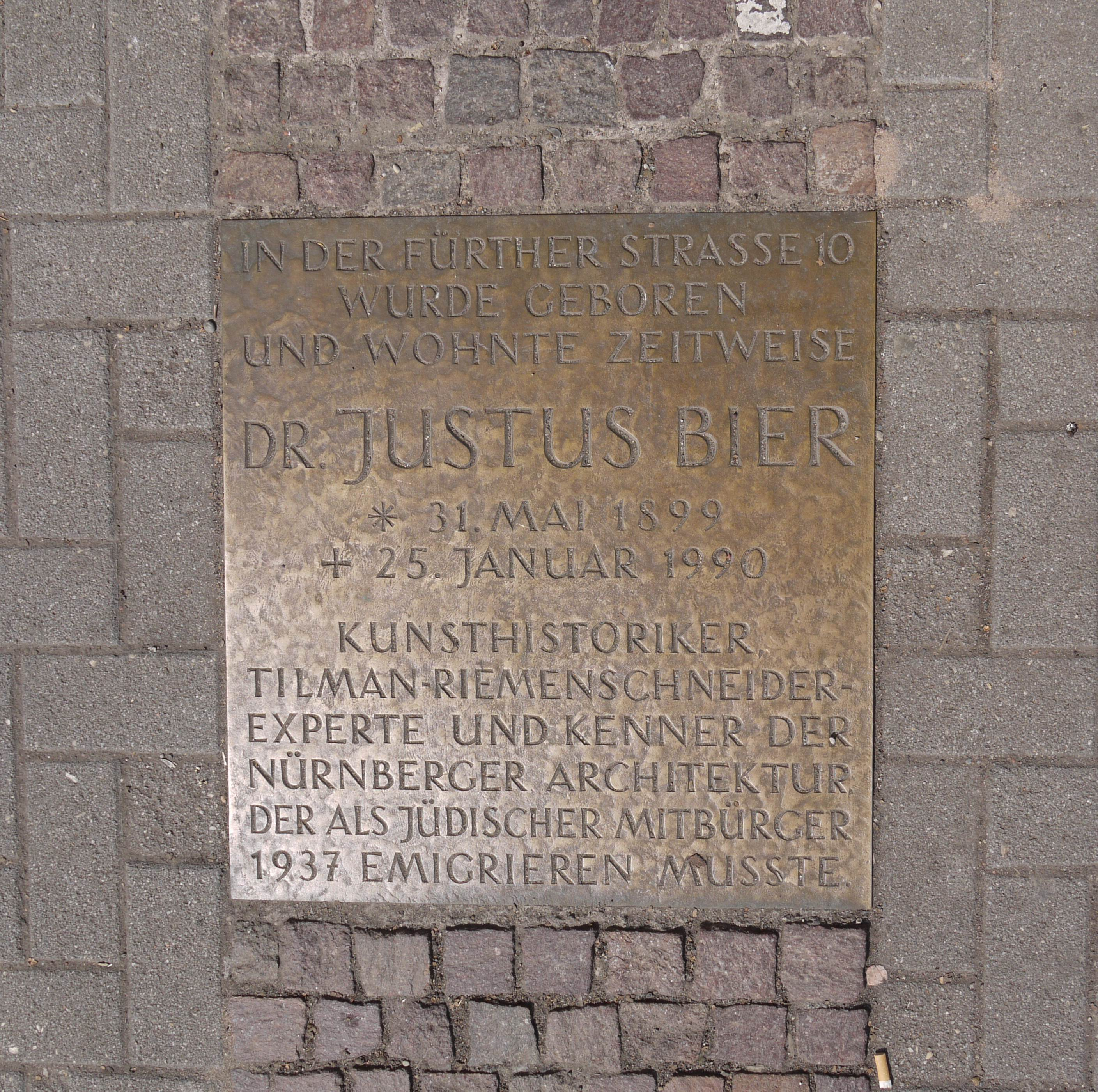 Justus Bier memorial, Fürtherstraße 10, Nuremberg